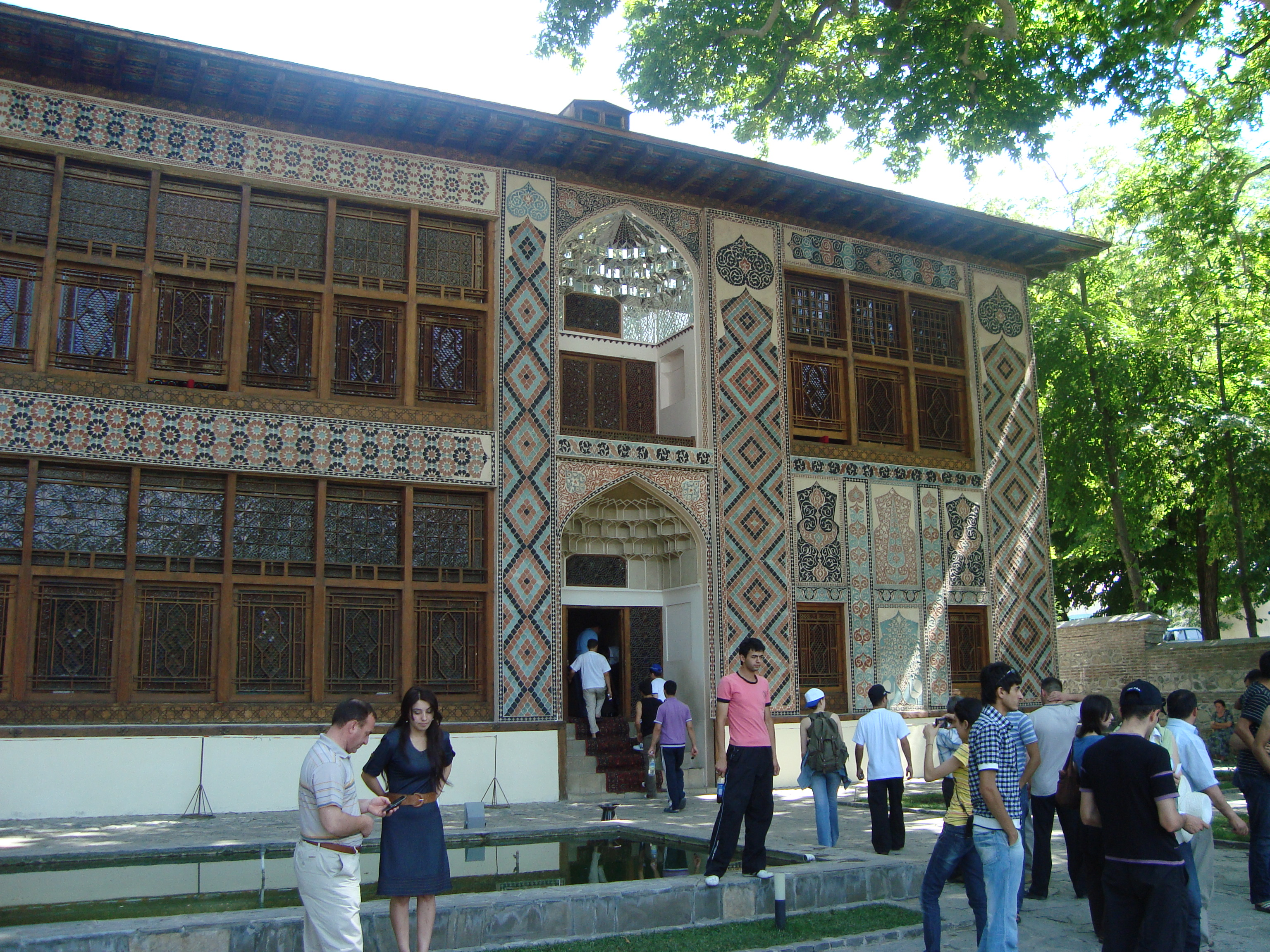 Shaki_khan_palace_image_Shaki_city_azerbaijan